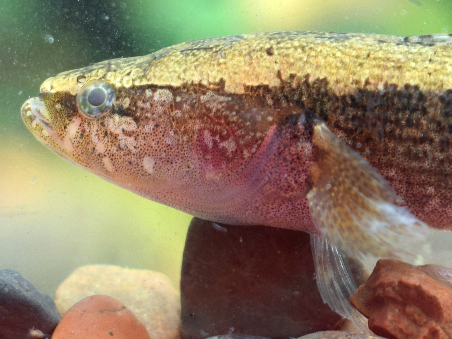 Dusky sleeper, Eleotris fusca, ca 60 mm SL. Head close up. From Banyumas, Central Java, Indonesia.